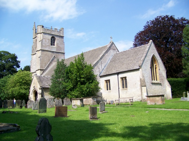 St Peter's Church, Clyffe Pypard The nave and tower date from the 15th century and the chancel was built in 1860 by Butterfield.